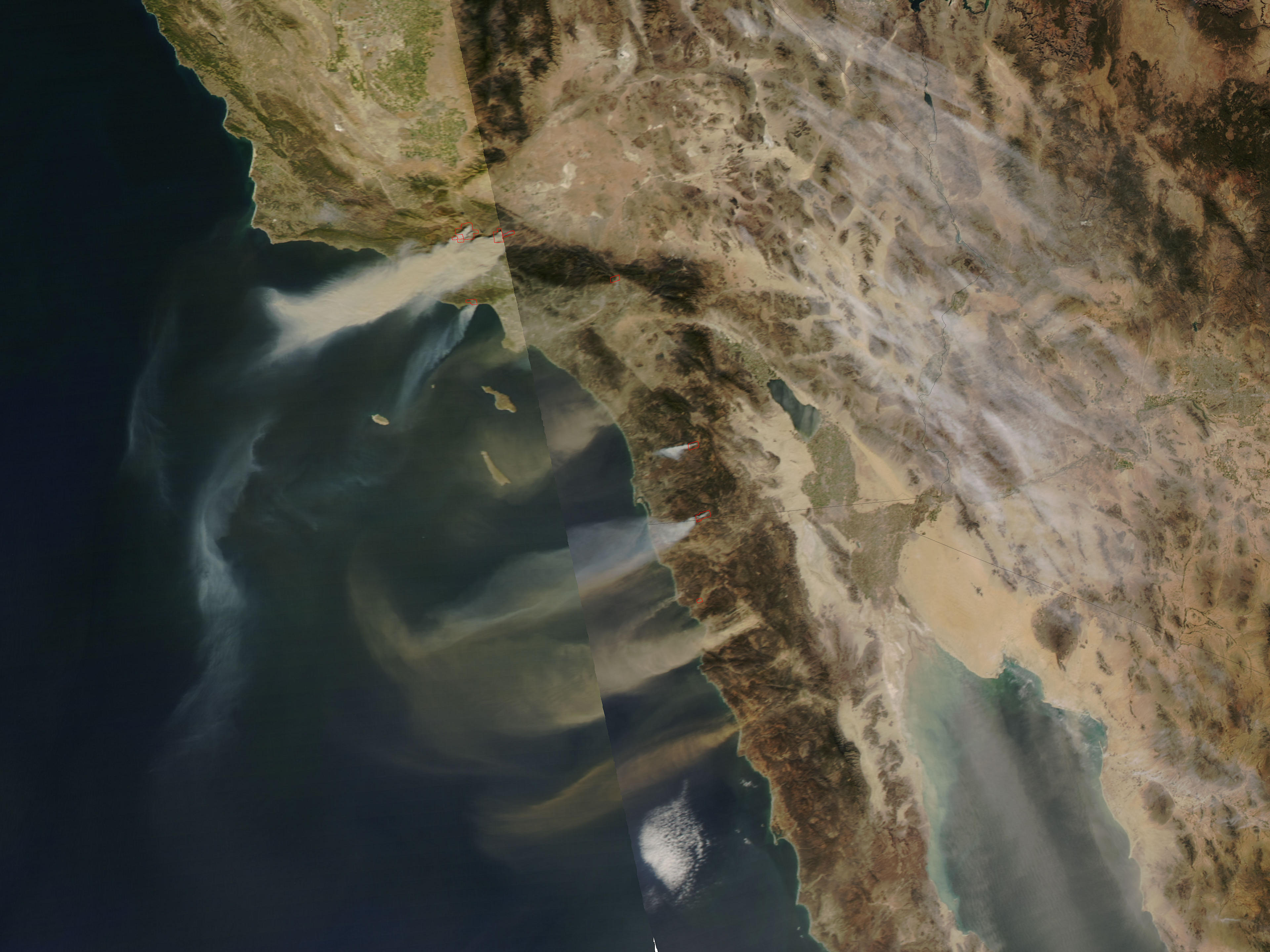 NASA MODIS Rapid Response System image showing California wildfires of October 2007 on October 21